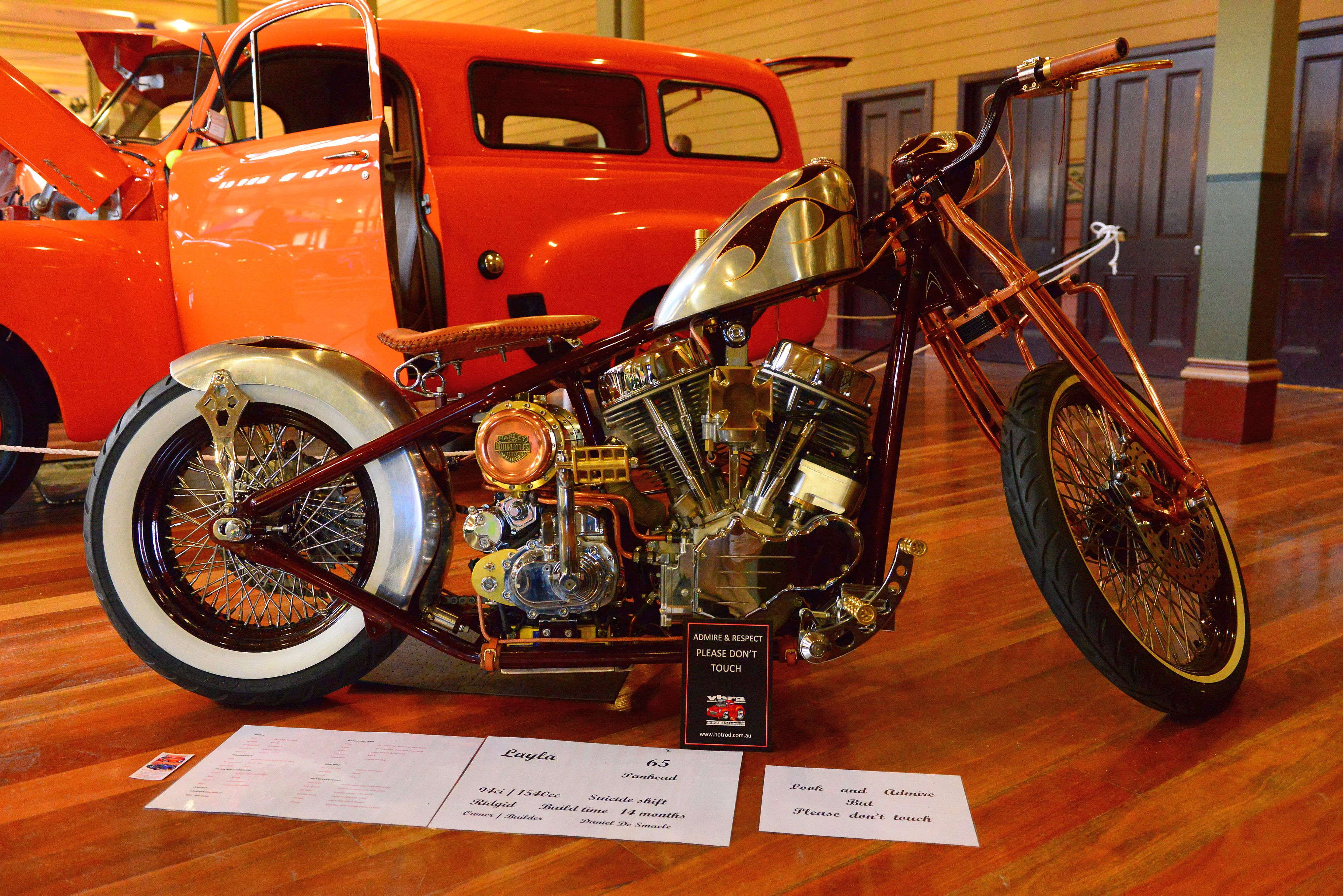 2014 Victorian Hot Rod Show